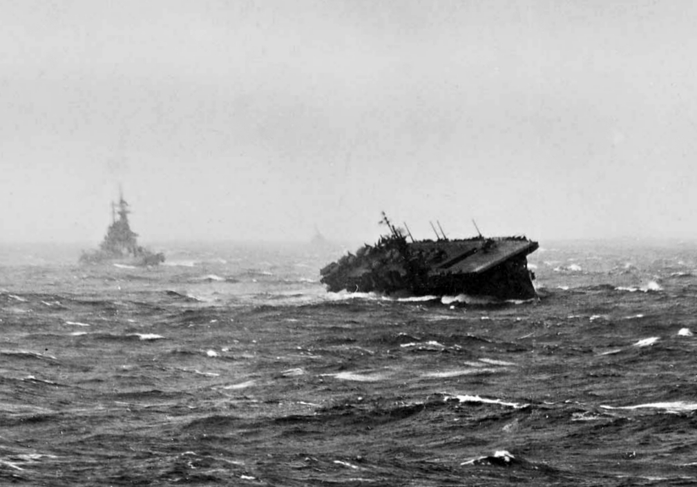 The U.S. Navy light aircraft carrier USS Langley (CVL-27) rolling heavily during Typhoon Cobra, 18 December 1944. A battleship is steaming behind the carrier.